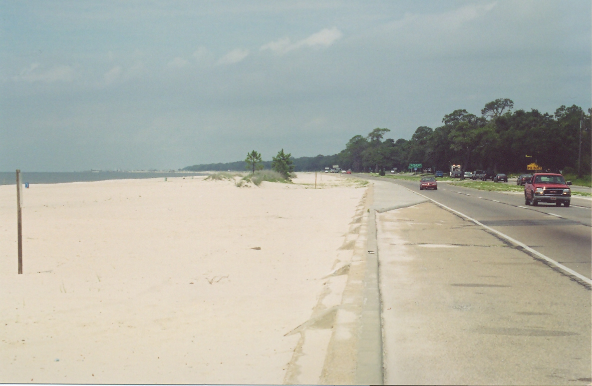 The Gulf Coast Beach in Mississipi along US 90. Photo by Jan Kronsell,2002.